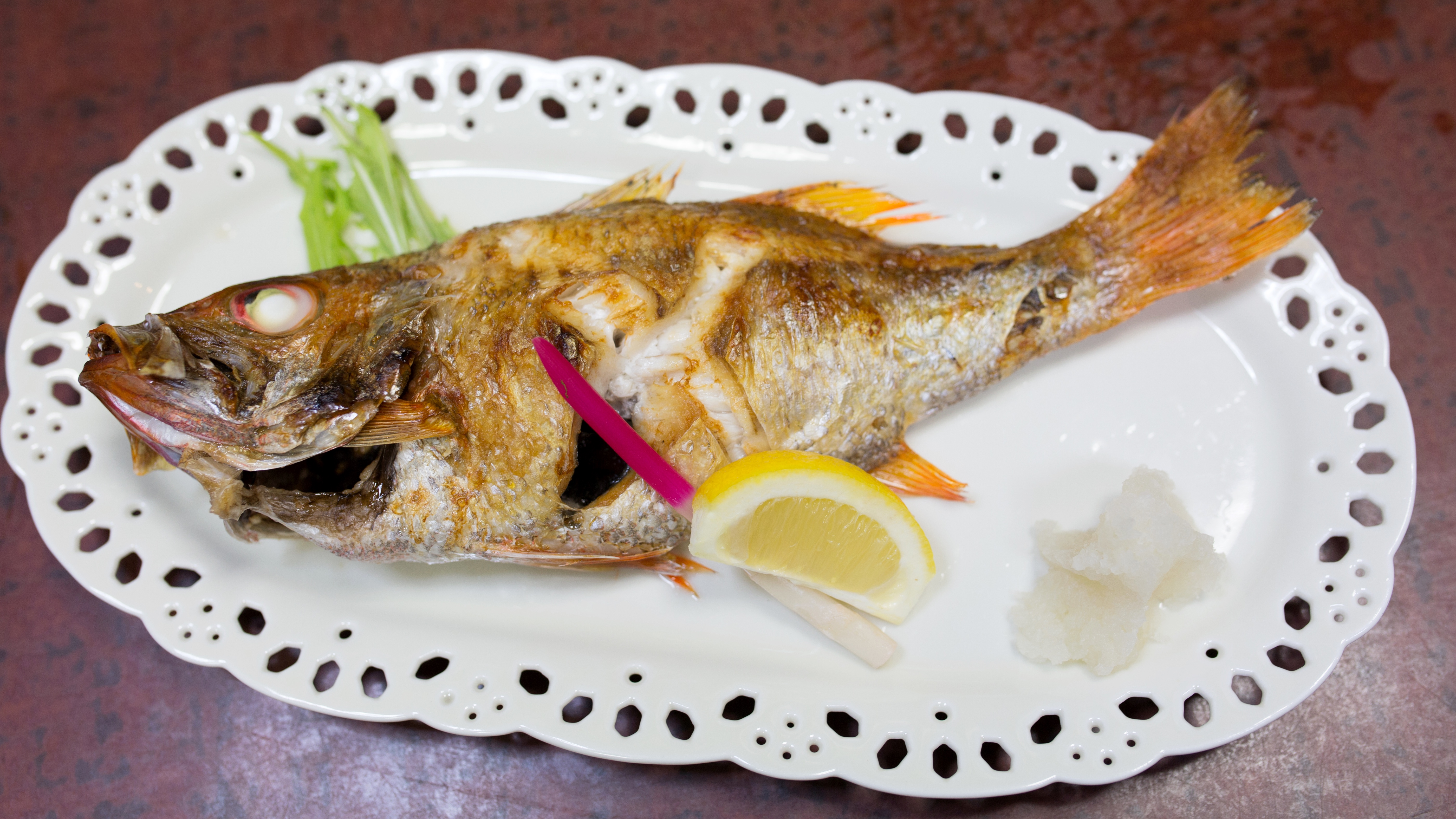 Nodoguro grilled with salt, Kappō Uosen, Nagaoka